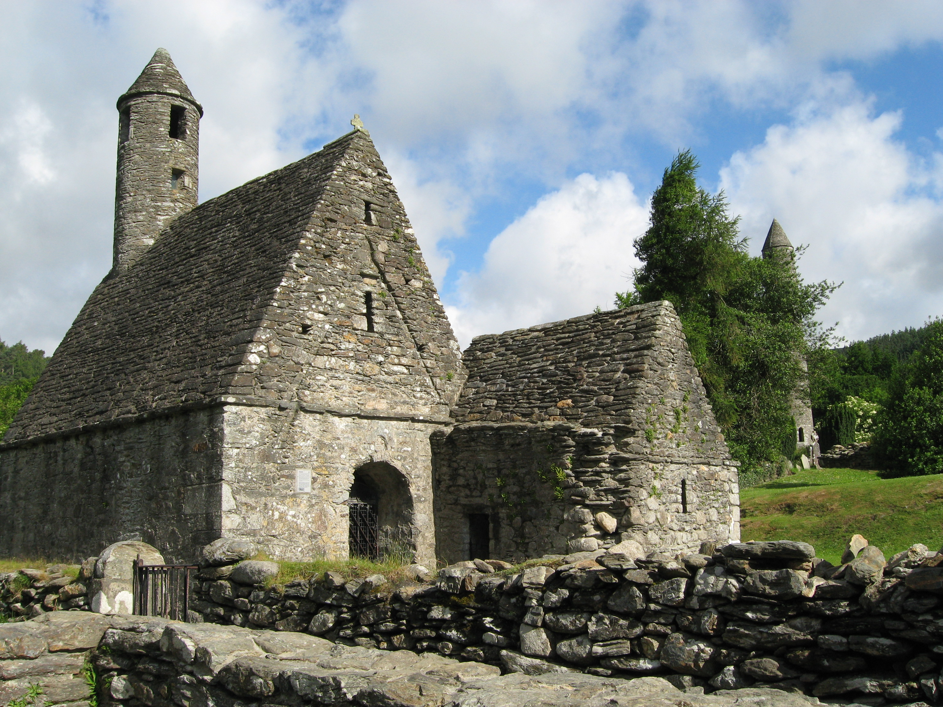 Picture is of St. Kevin's Church and/or Kitchen. Taken 19JUN2008, in County Wicklow, Glendalough, Ireland